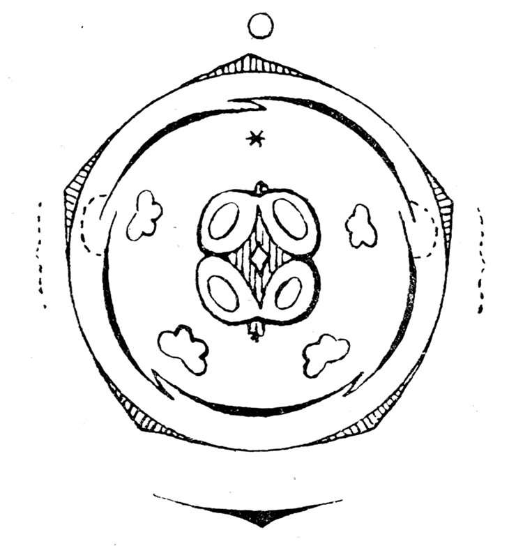 flower diagram of Verbena officinalis